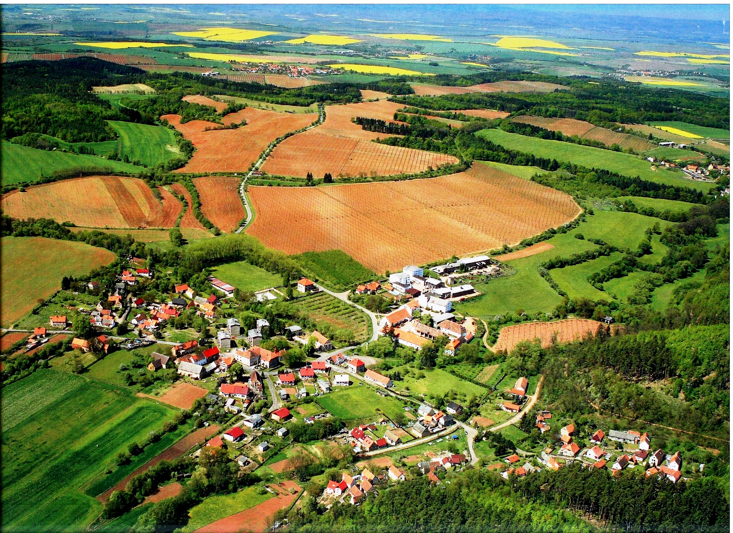 Aerial shot of Deštnice